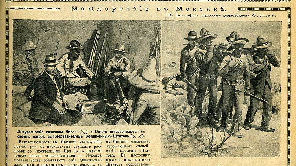 Scan of Ogoniok magazine, 1914. The source stated it is material about Veracruz Occupation of 1914. But probably it is article about Carranza uprising of 1913-1914 in whole